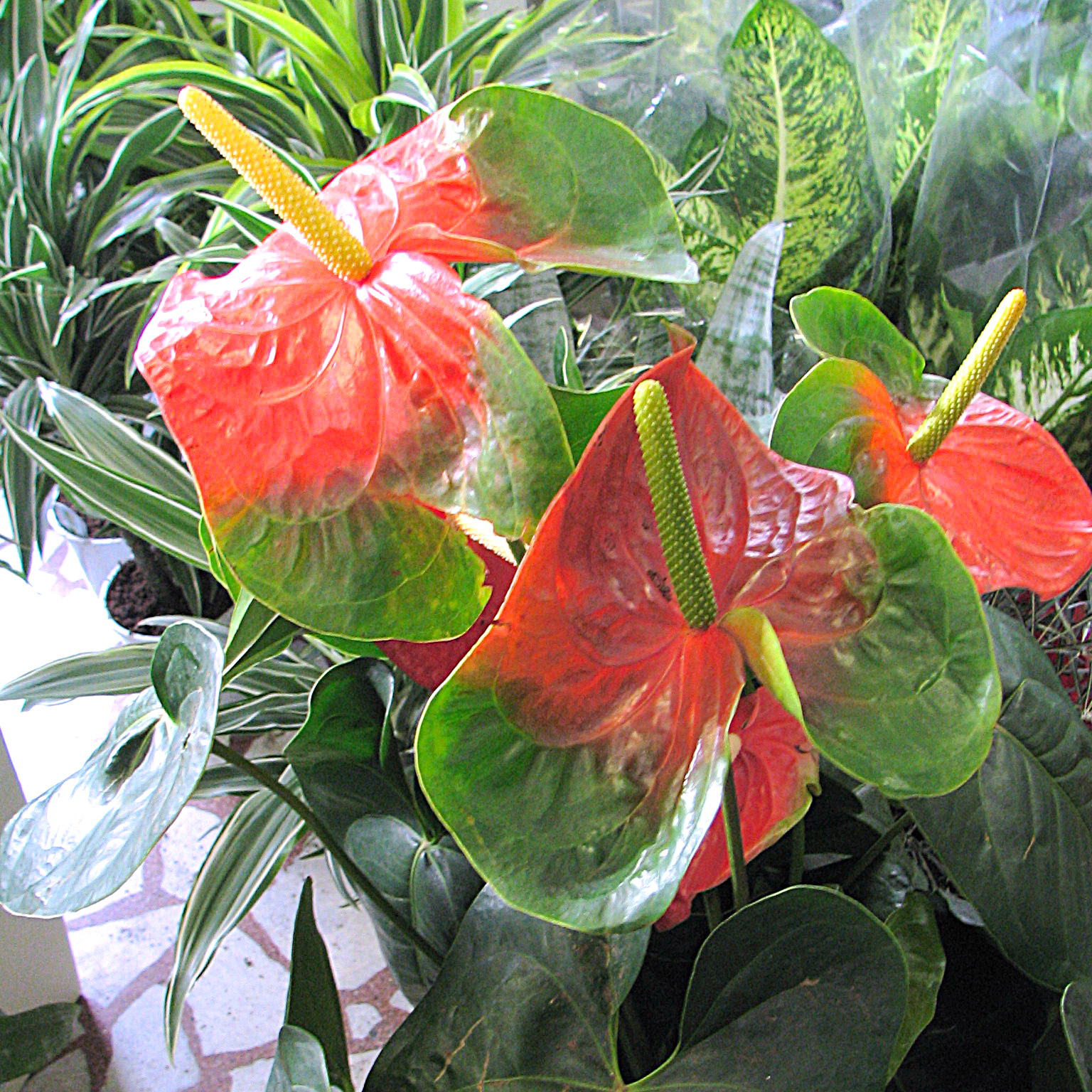 Spathe of Anthurium andreanum 'Robin'.